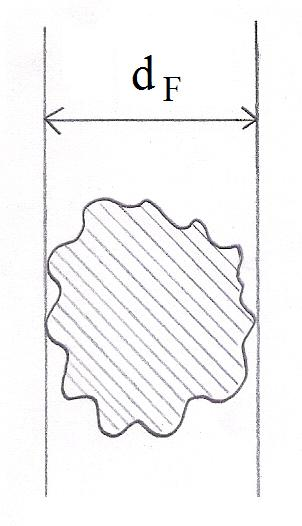 dsequivalent4